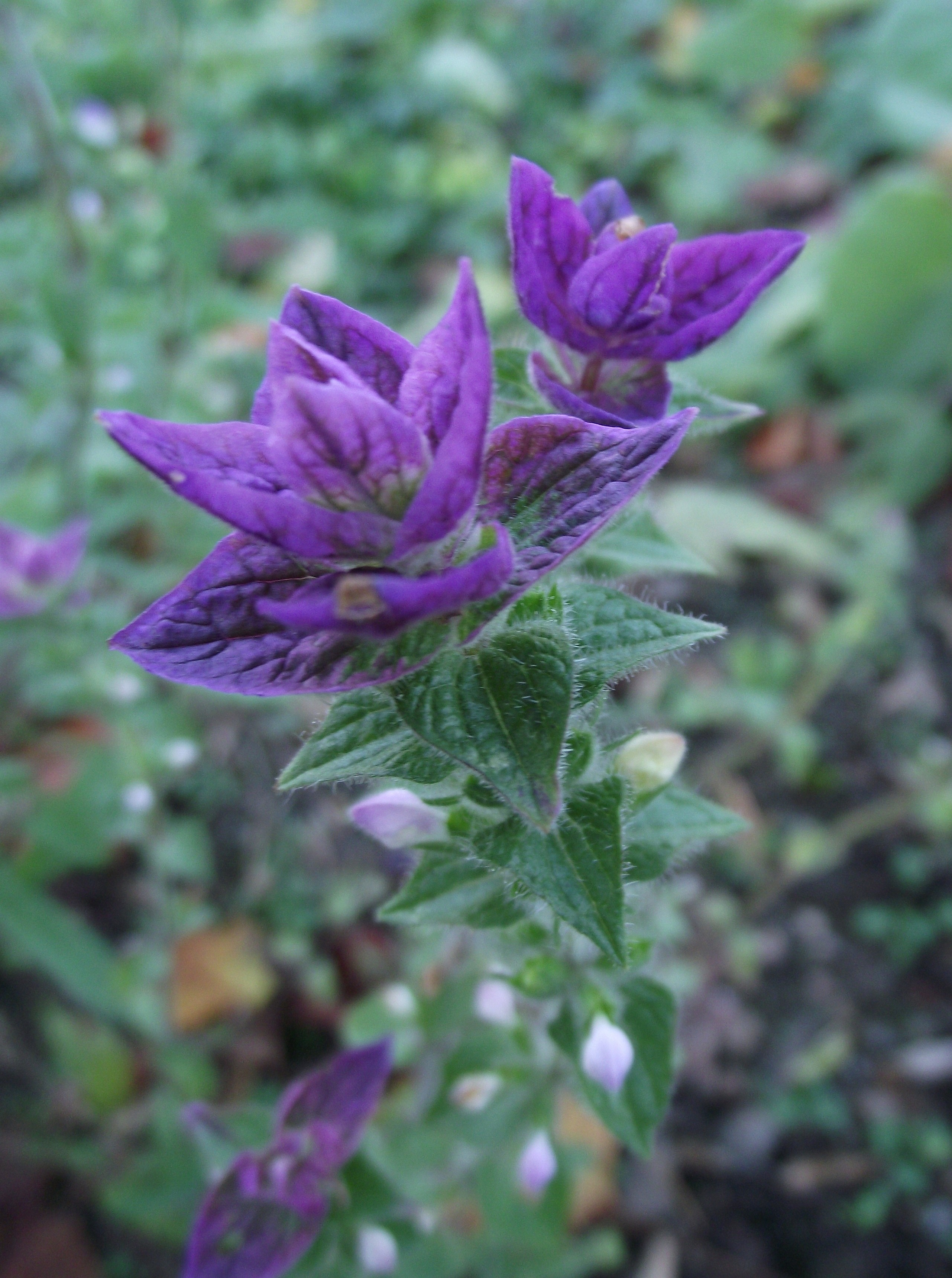 Salvia viridis in the UC Botanical Garden, Berkeley, California, USA. Identified by sign.